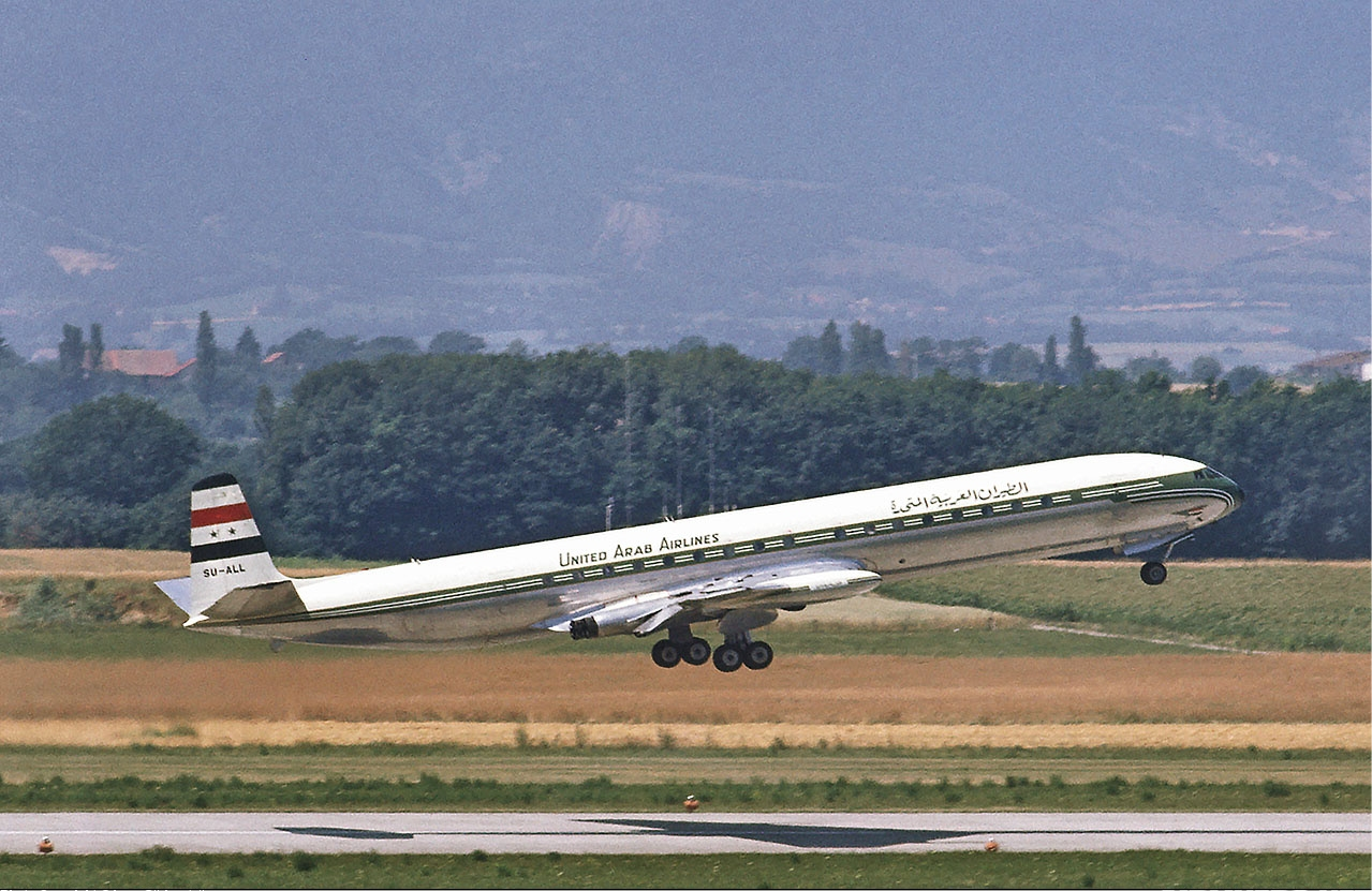 United Arab Airlines De Havilland DH-106 Comet 4C at takeoff.